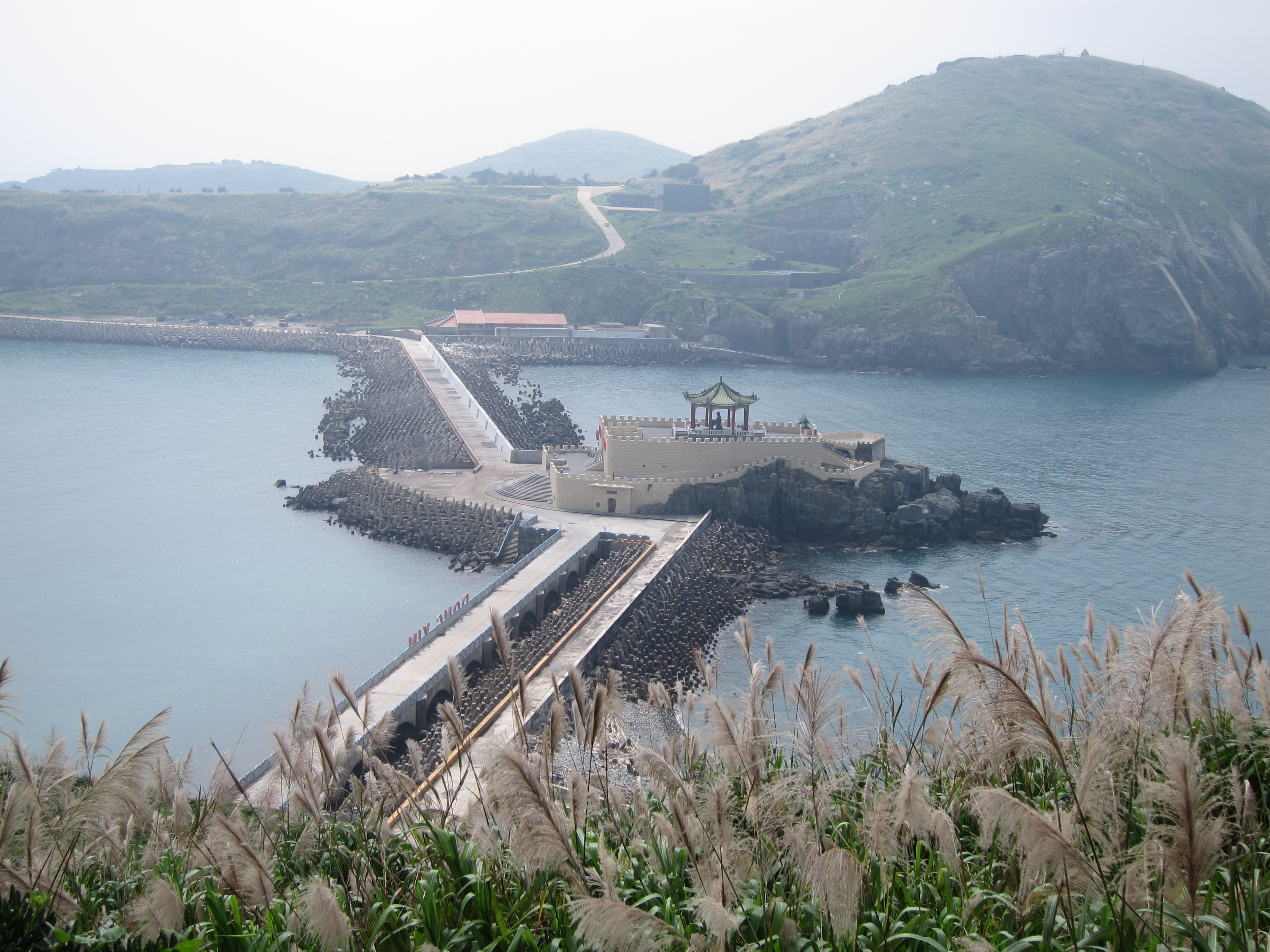 View over Zhongzhu Island with Xiyin Island in the background.